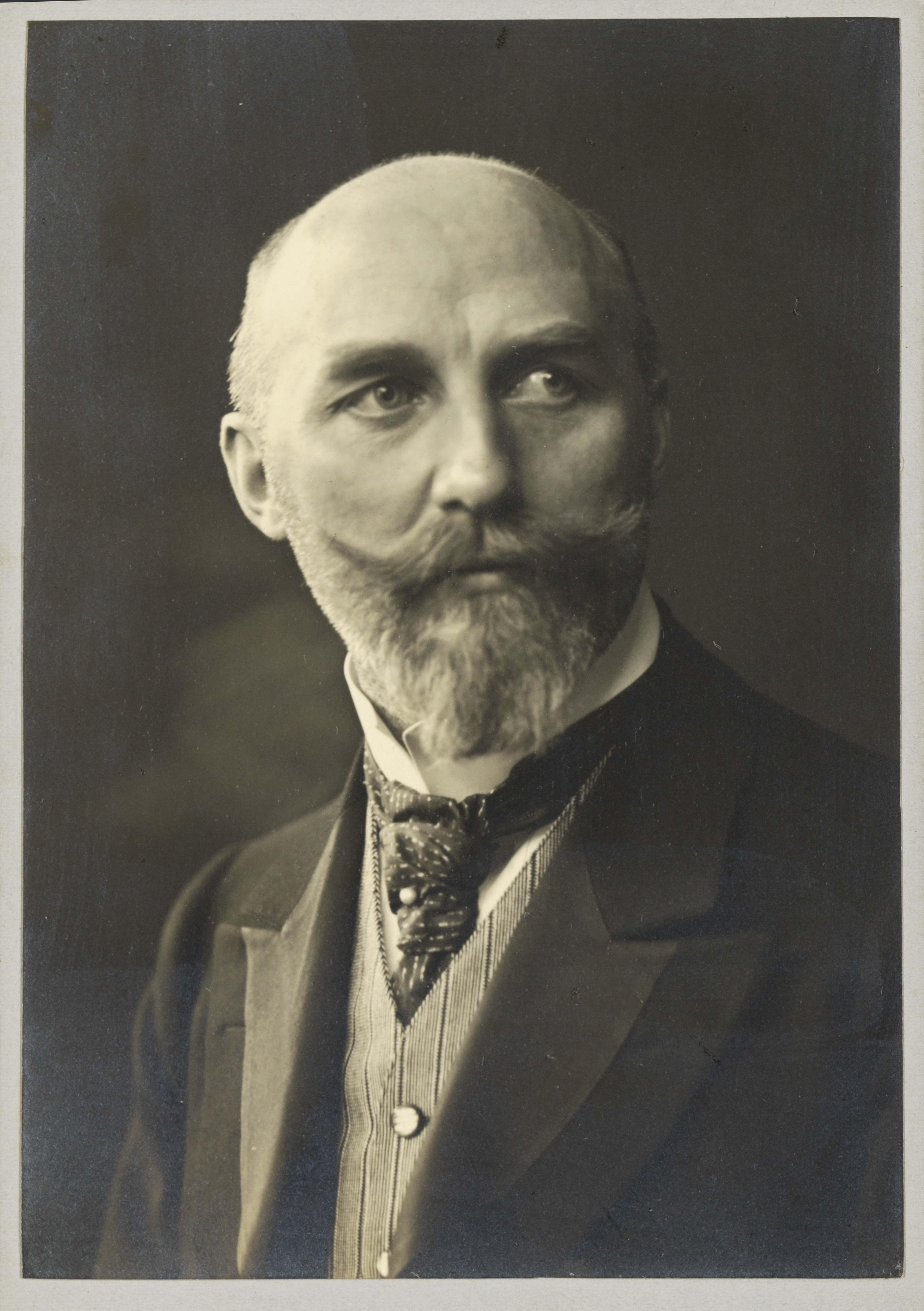 Portrait of German architect Hermann Jansen. Gelatin silver print.